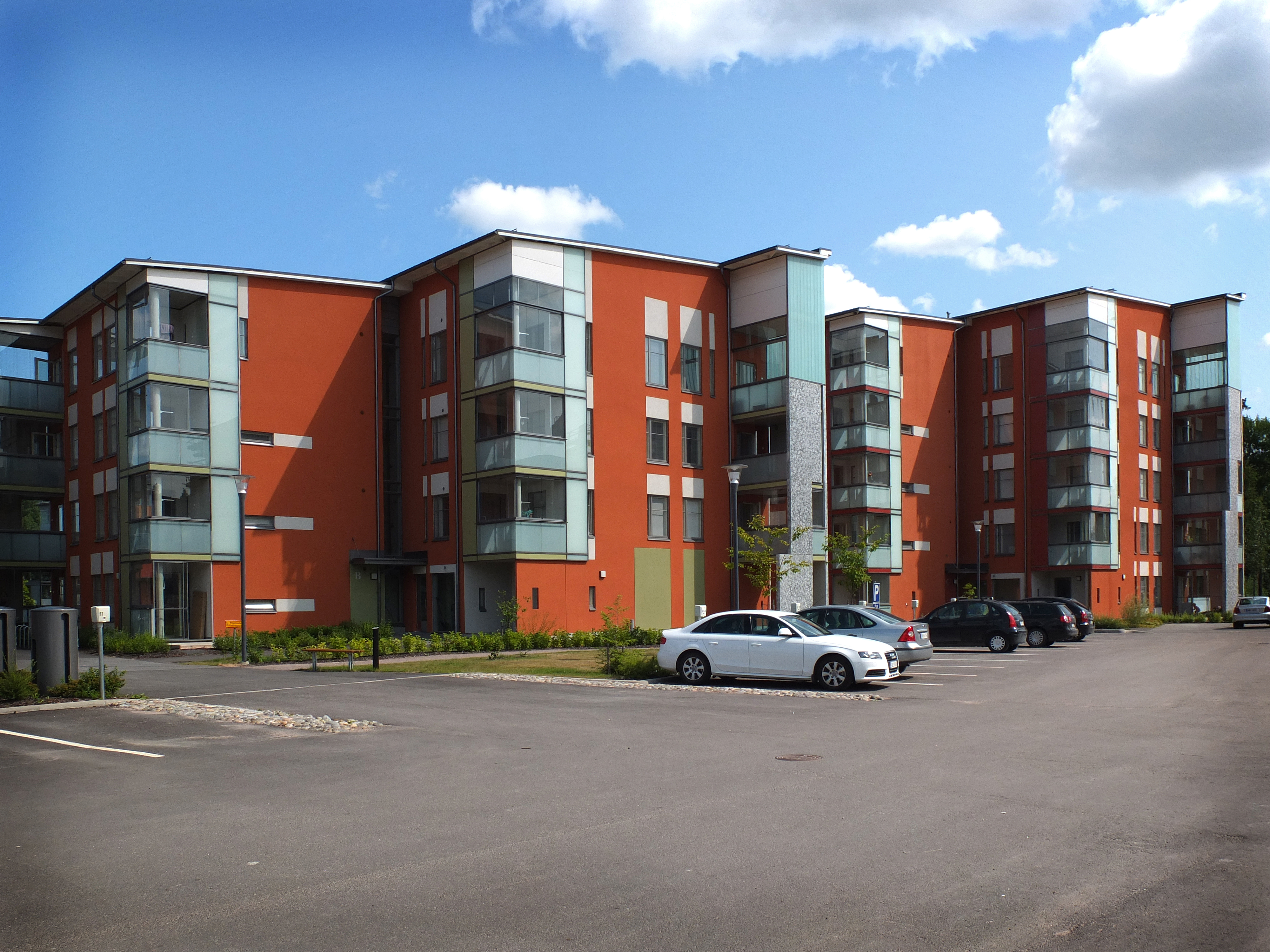 One of the first buildings completed in the new Suurpelto housing complex in Espoo, Finland, summer 2013. Address: Piilipuuntie / Hans Florin polku.